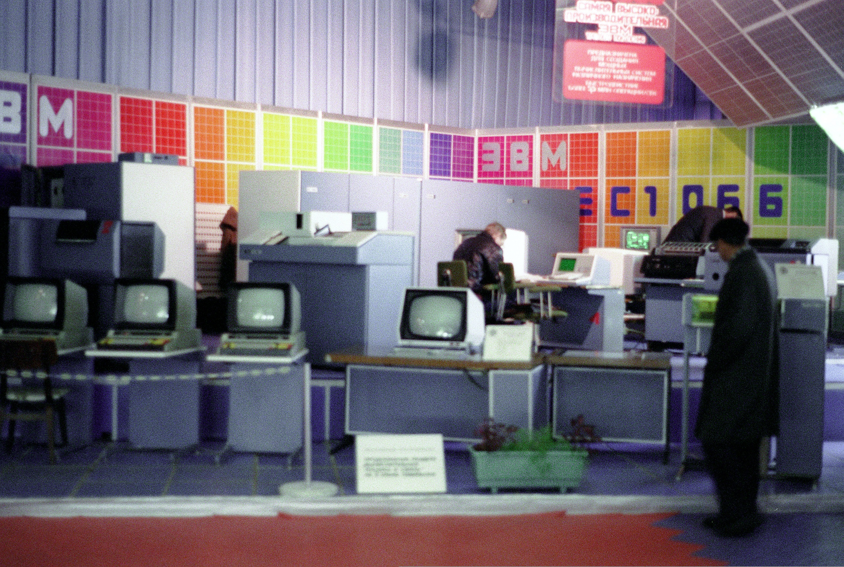 A view of word processors on display at one of the pavilions at the Exhibition of Achievements of the National Economy.